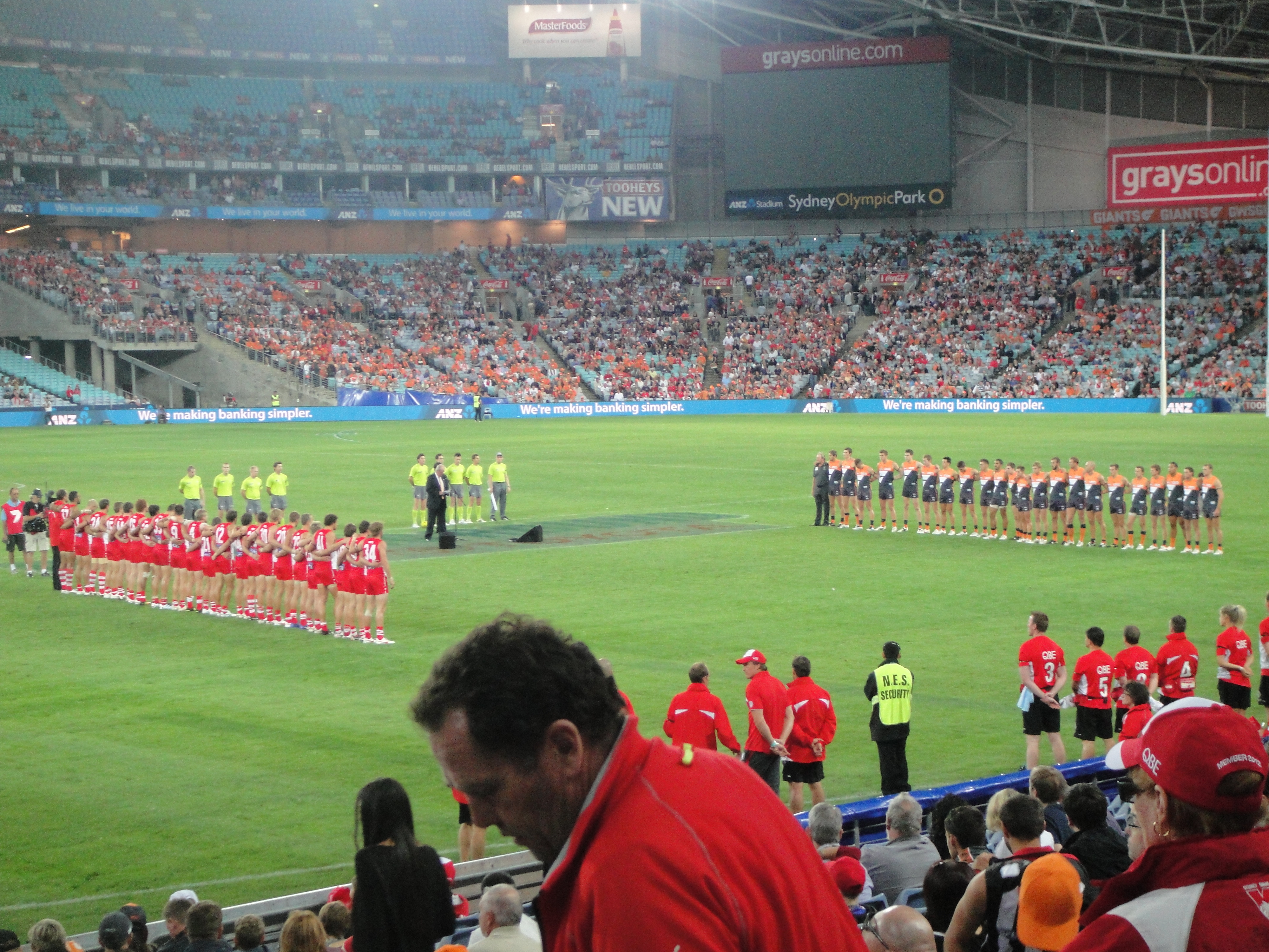 Sydney Swans and GWS Giants players line up before the start of the match.